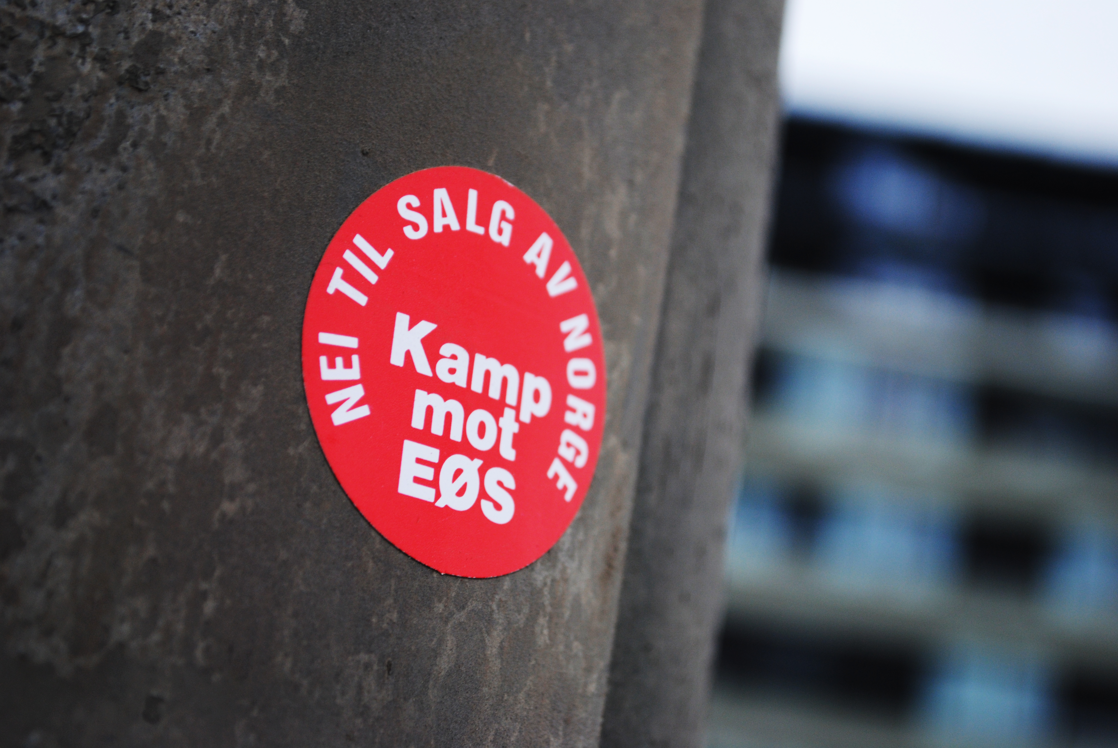 A sticker arguing against Norwegian membership in the European Economic Area in Oslo 2013.